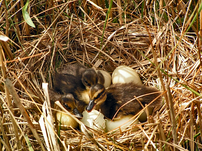 Ducklings of Anas Platyrhynchos